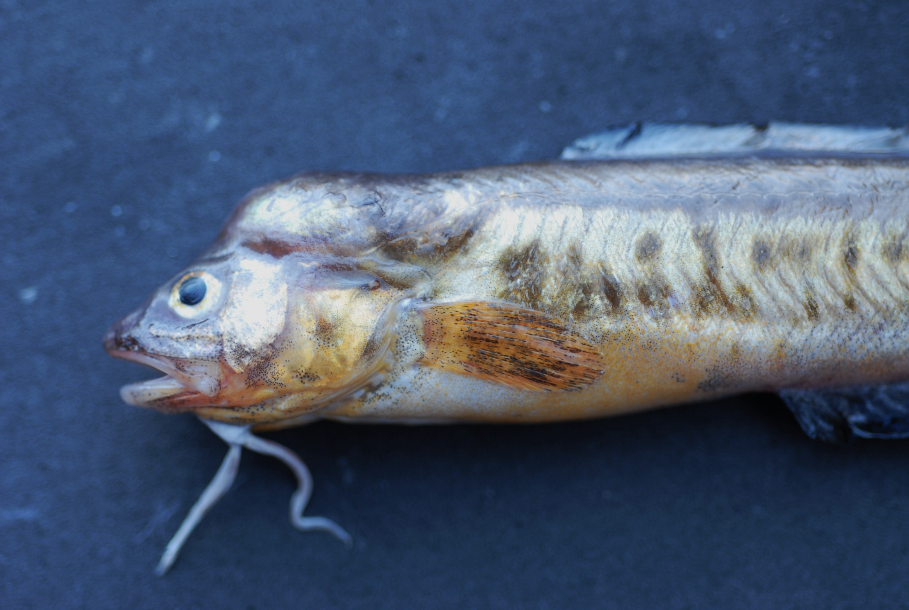 Crested cusk-eel (Ophidion josephi). Gulf of Mexico.